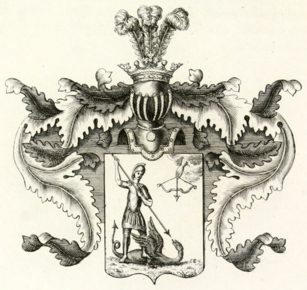 Coat of Arms of Yazykov family